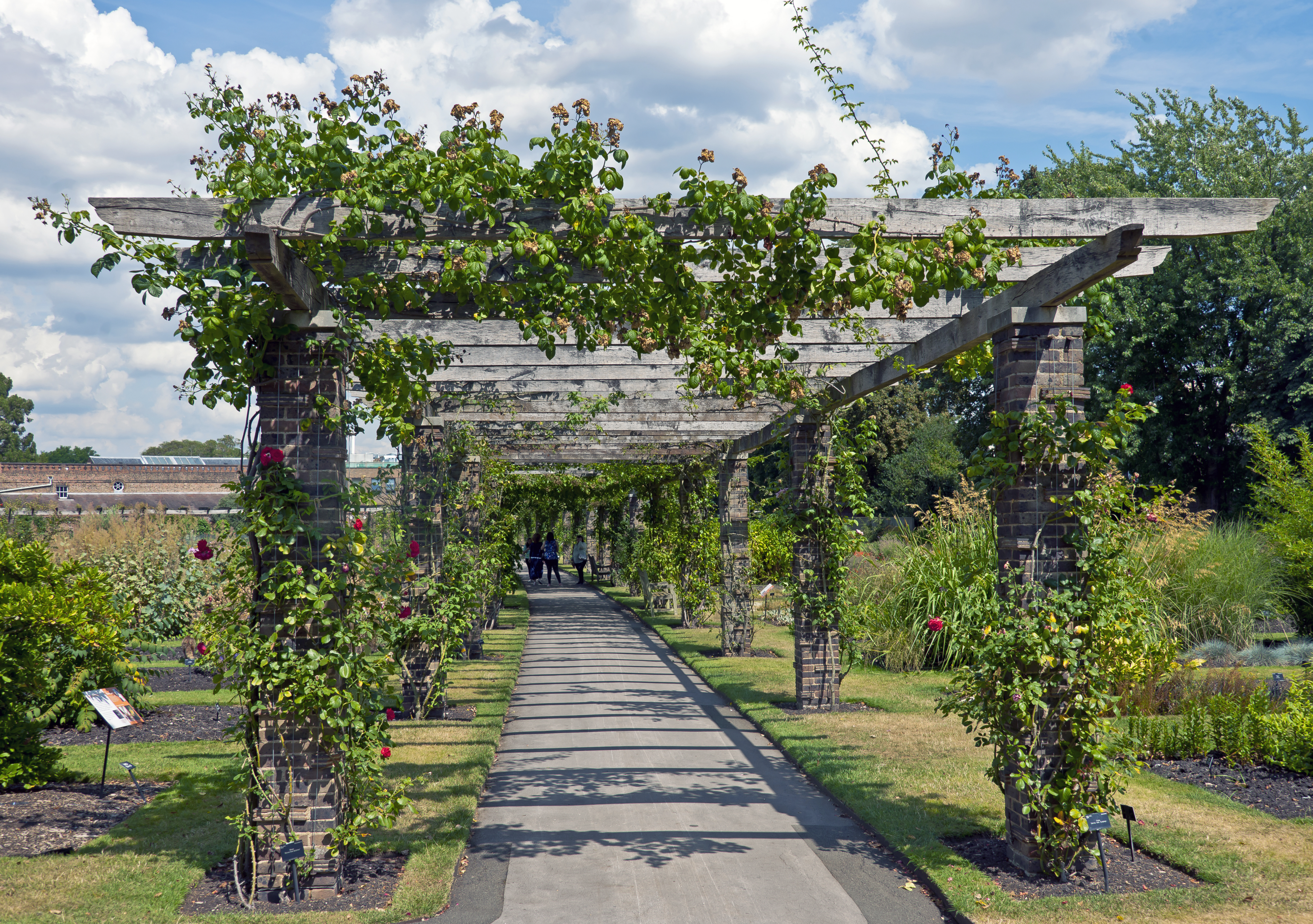 Rose Pergola in the Order Beds at Kew Gardens